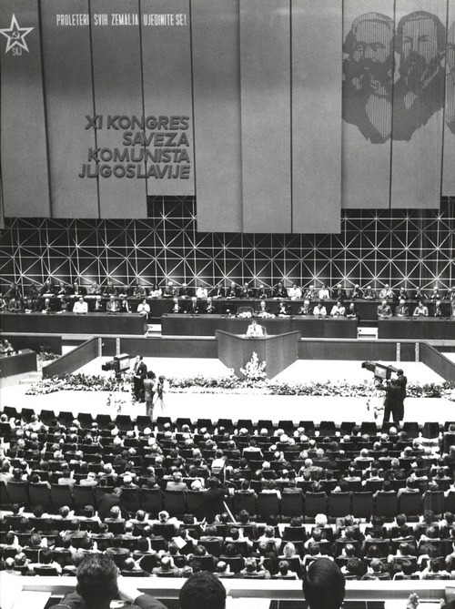 Jedanaesti kongres SKJ u Beogradu 1978.